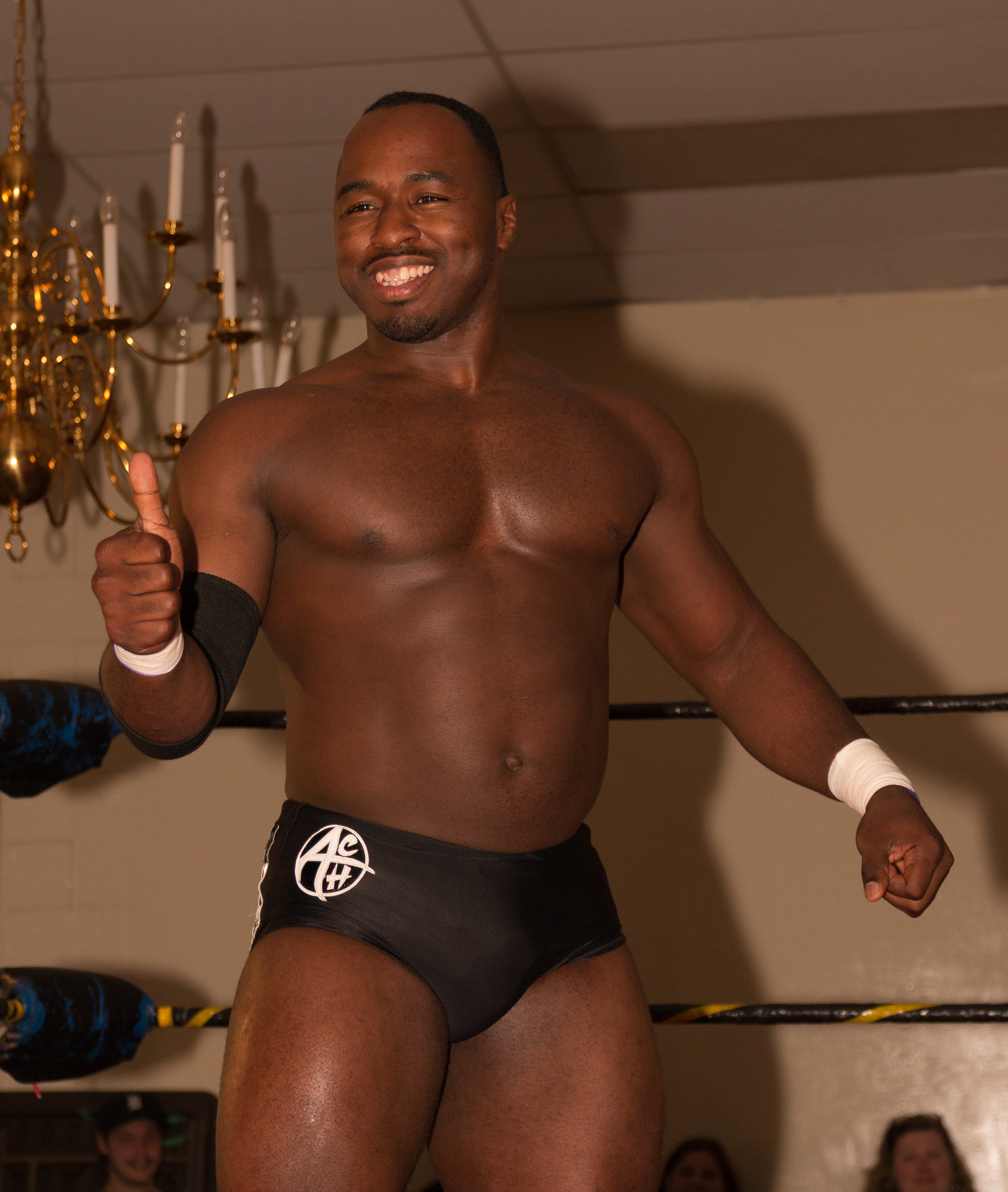 Independent wrestler ACH pre-match at an Alpha-1 show in Hamilton, ON